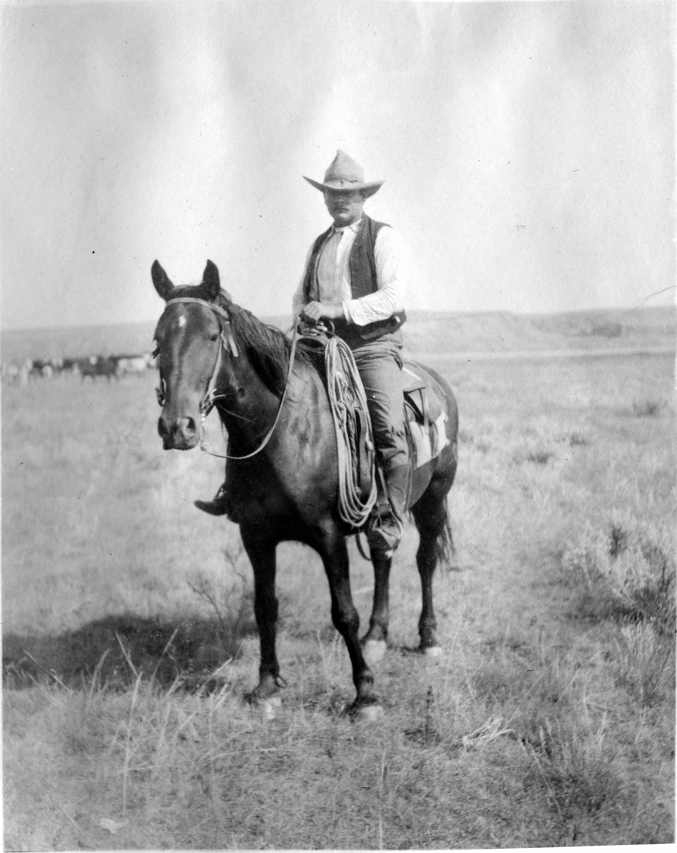 Cowboy, at the ', Montana — around 1910